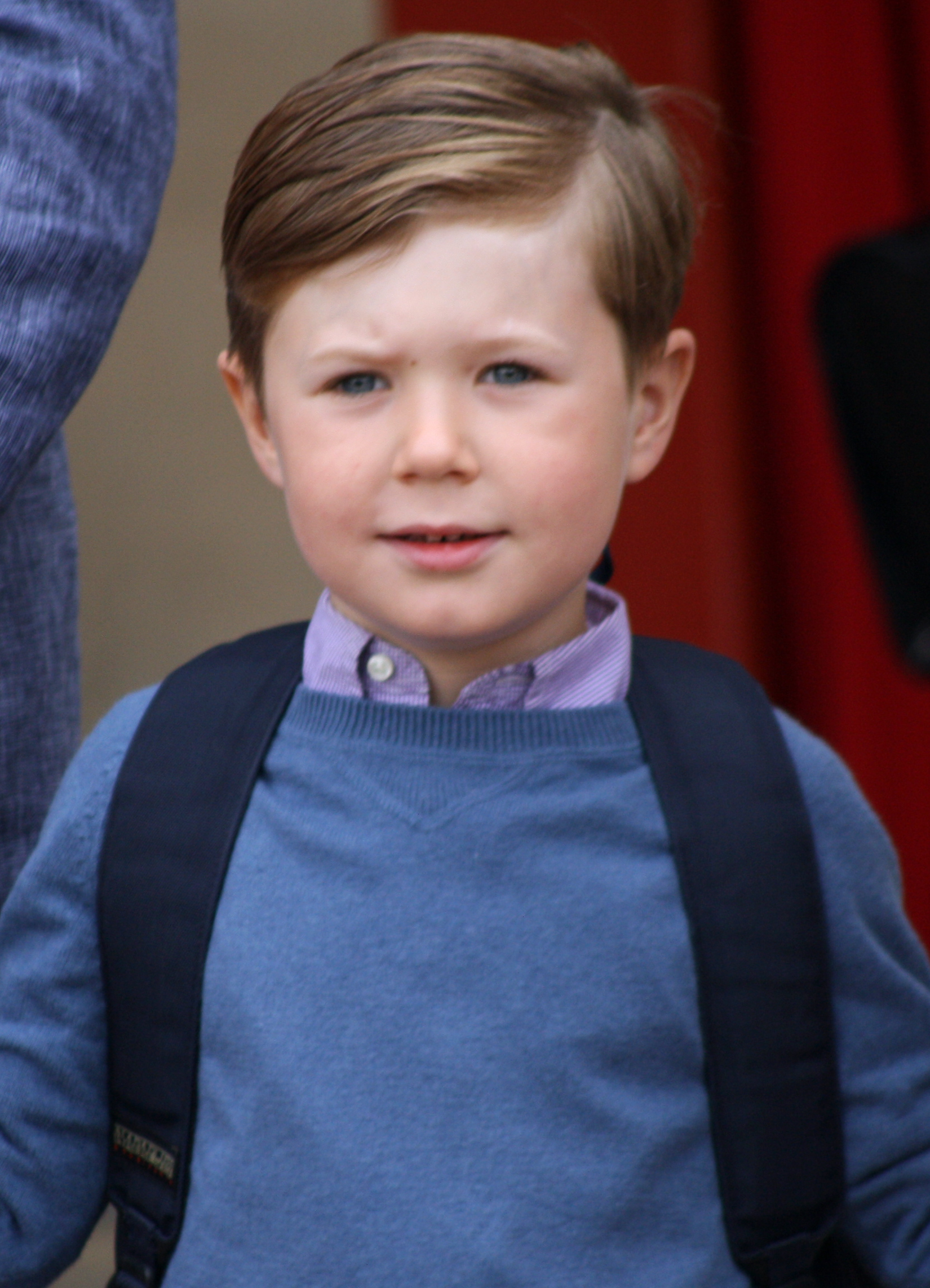 Prince Christian of Denmark being escorted to school by his parents, the Crown Princess and Crown Princess of Denmark.